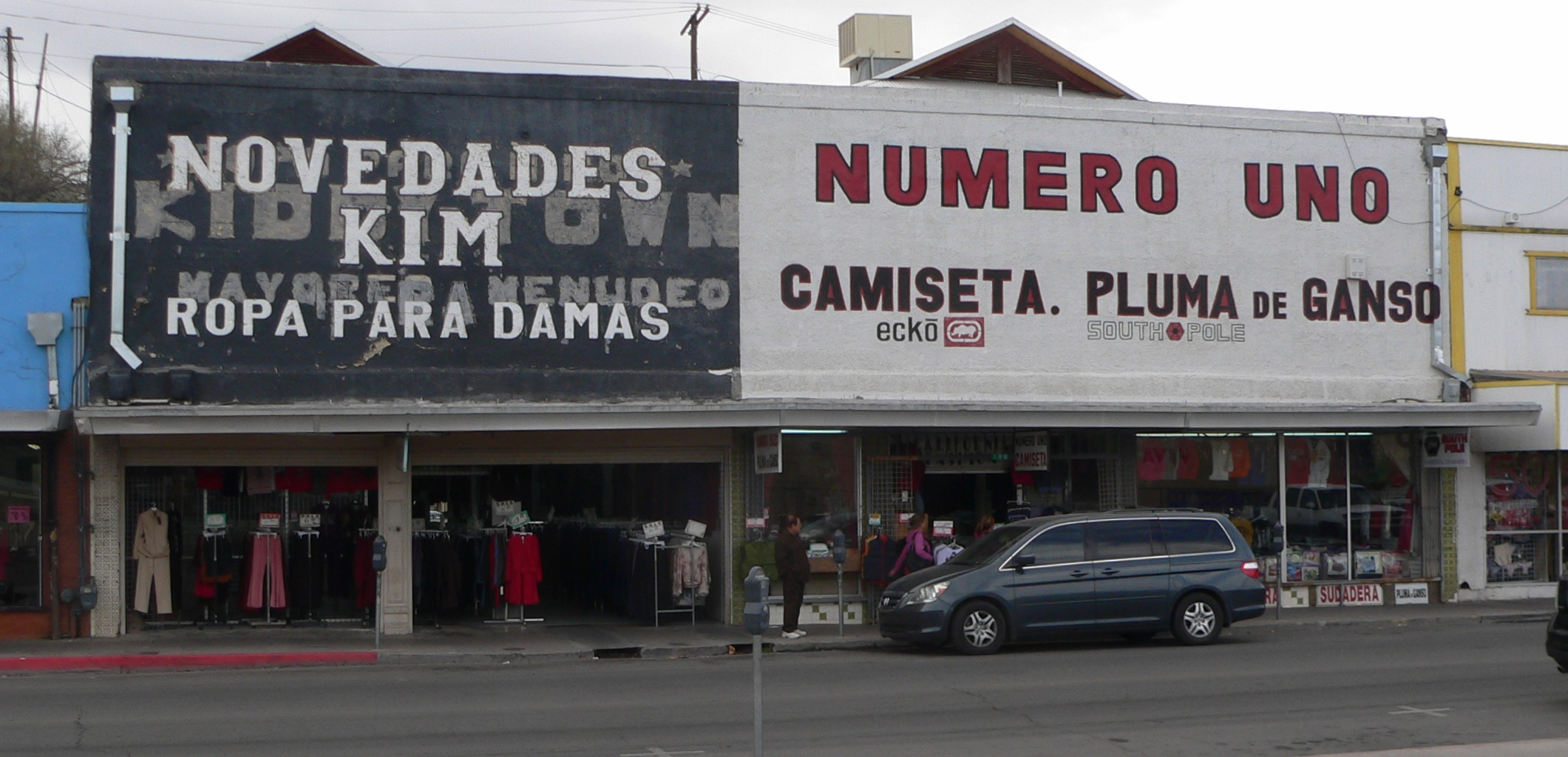 Jose Piscorski building, located at 186-190 Morley Avenue in Nogales, Arizona.